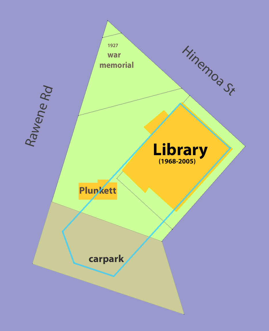 Footprint of second version of new Birkenhead Public Library in comparison to old library. Based on North Shore City Council Community Services webpage: All line, scale approximate; illustrative only.